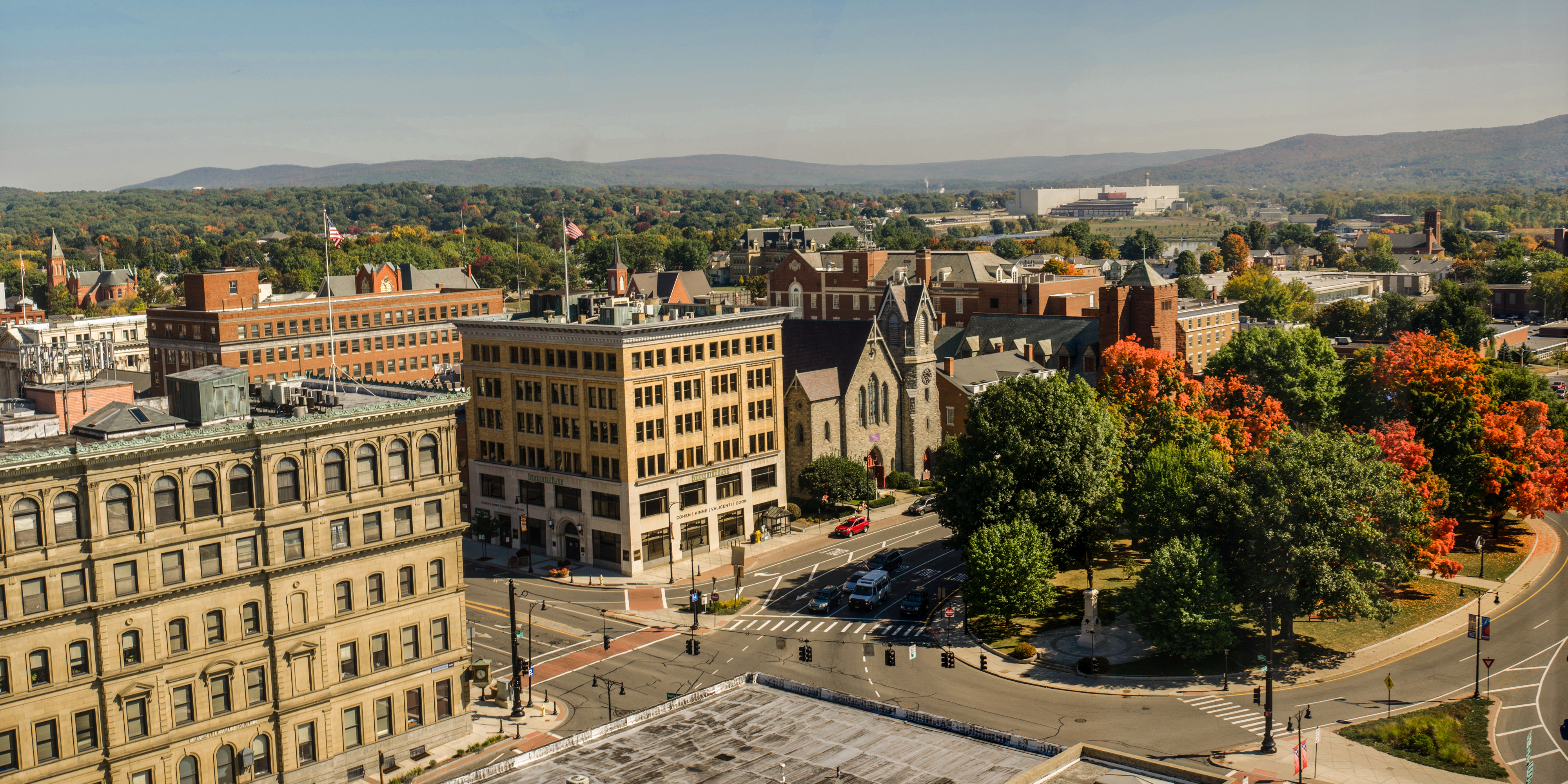 Downtown and Park Square, Pittsfield, Massachusetts